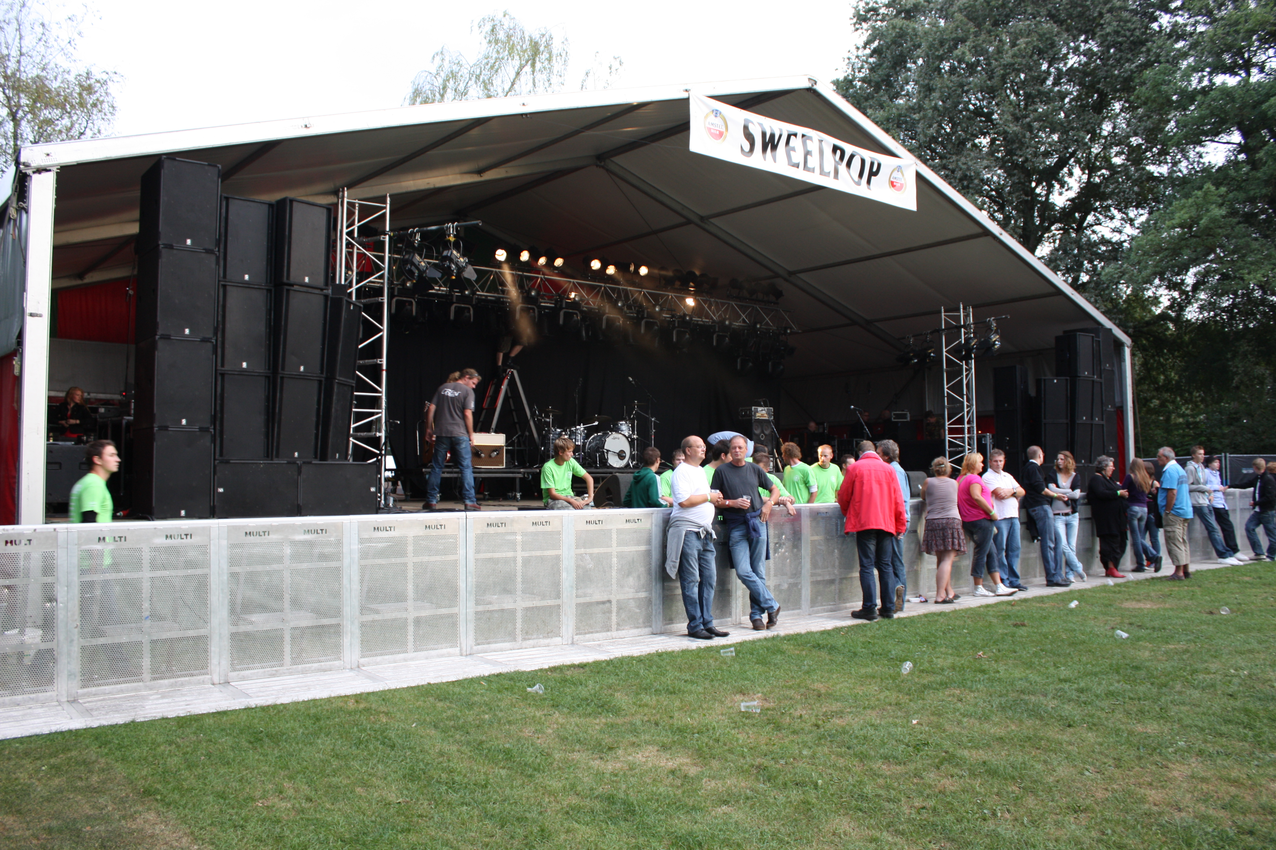 Mojo barriers used at a festival.